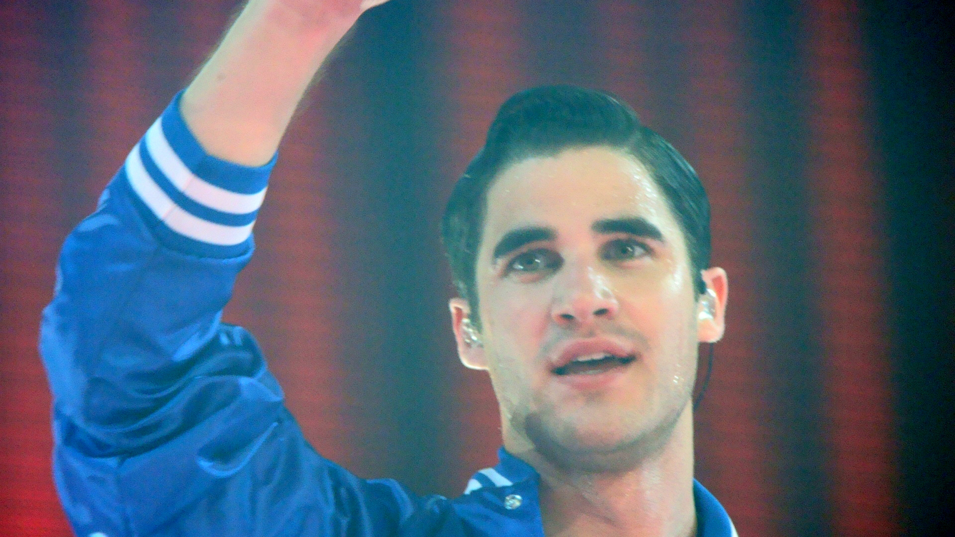 Darren Criss - Somebody To Love